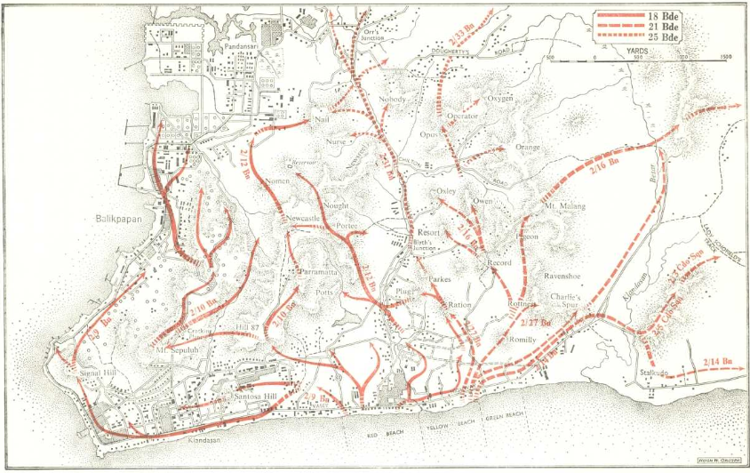 Map of Australian operations around Balikpapan 1-5 July 1945, depicting the movement of the 7th Division's infantry battalions